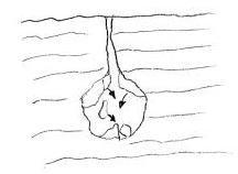 Geological process